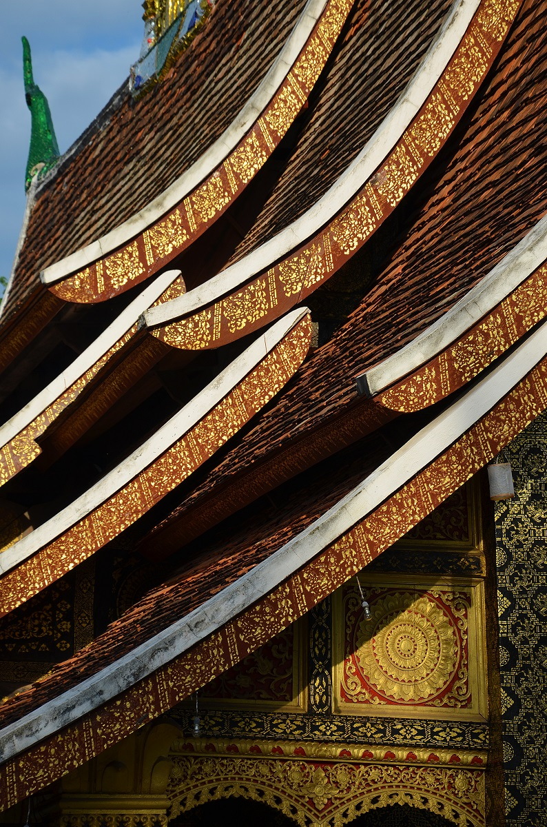 The roof of the ordination hall (sîm) at Wat Xieng Thong, Luang Prabang